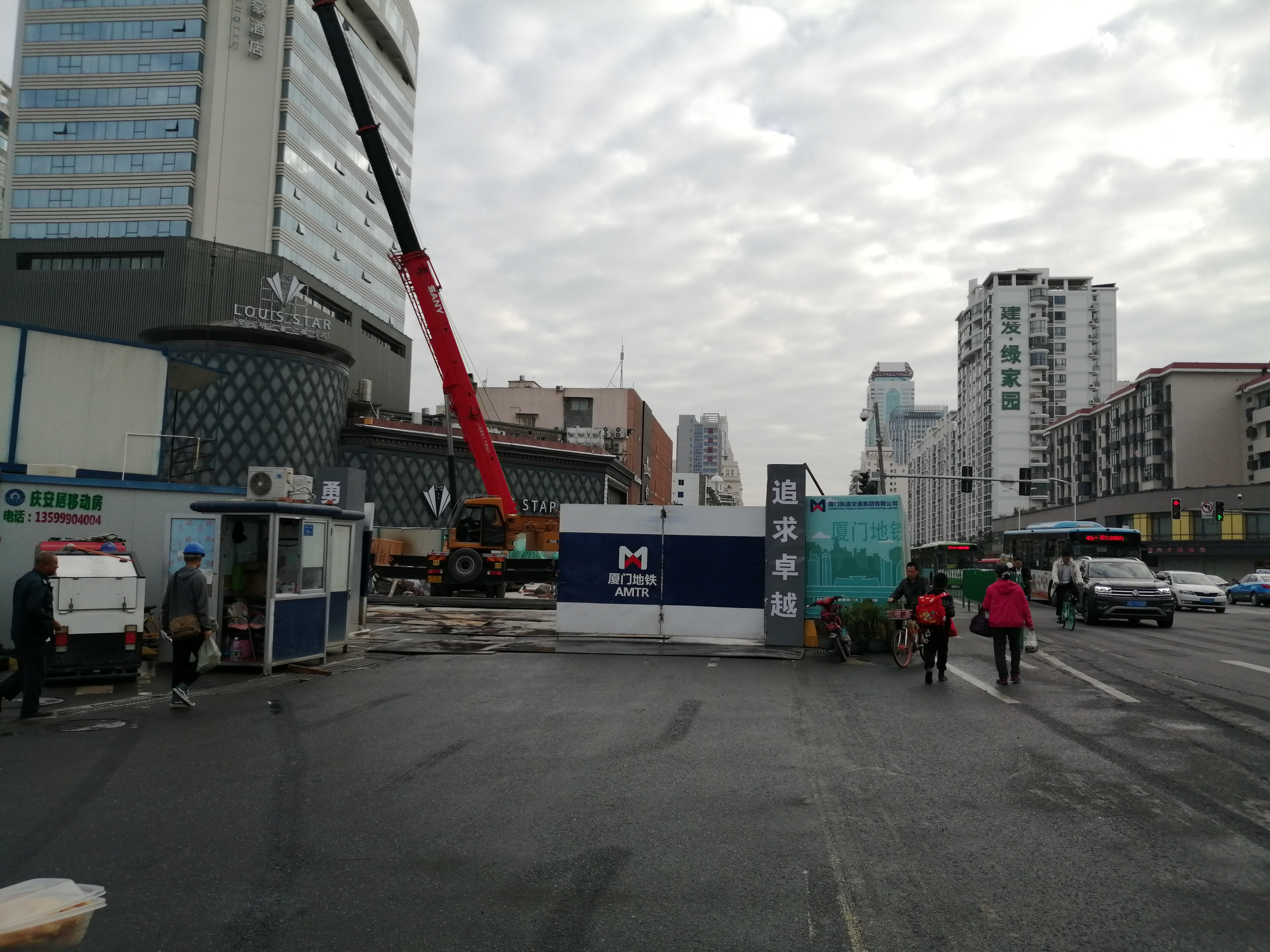 Construction site of Line 3, at Hubin East Road Station 中文（中国大陆）: 湖滨东路站3号线部分的工地